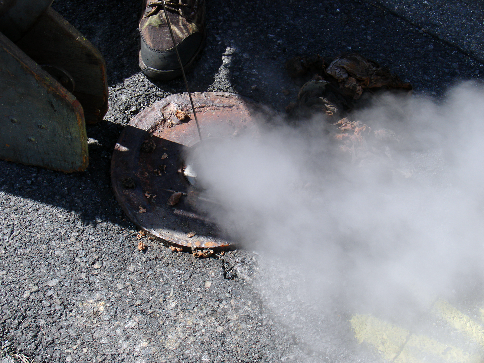 Smoke wafts from a Pennsylvania Department of Environmental Protection (DEP) monitoring hole in Centralia, Pennsylvania. The town has been nearly abandoned due to an underground coal mine fire that has been burning for decades. The measured temperature at 10 feet was 187 °F (about 86 °C).